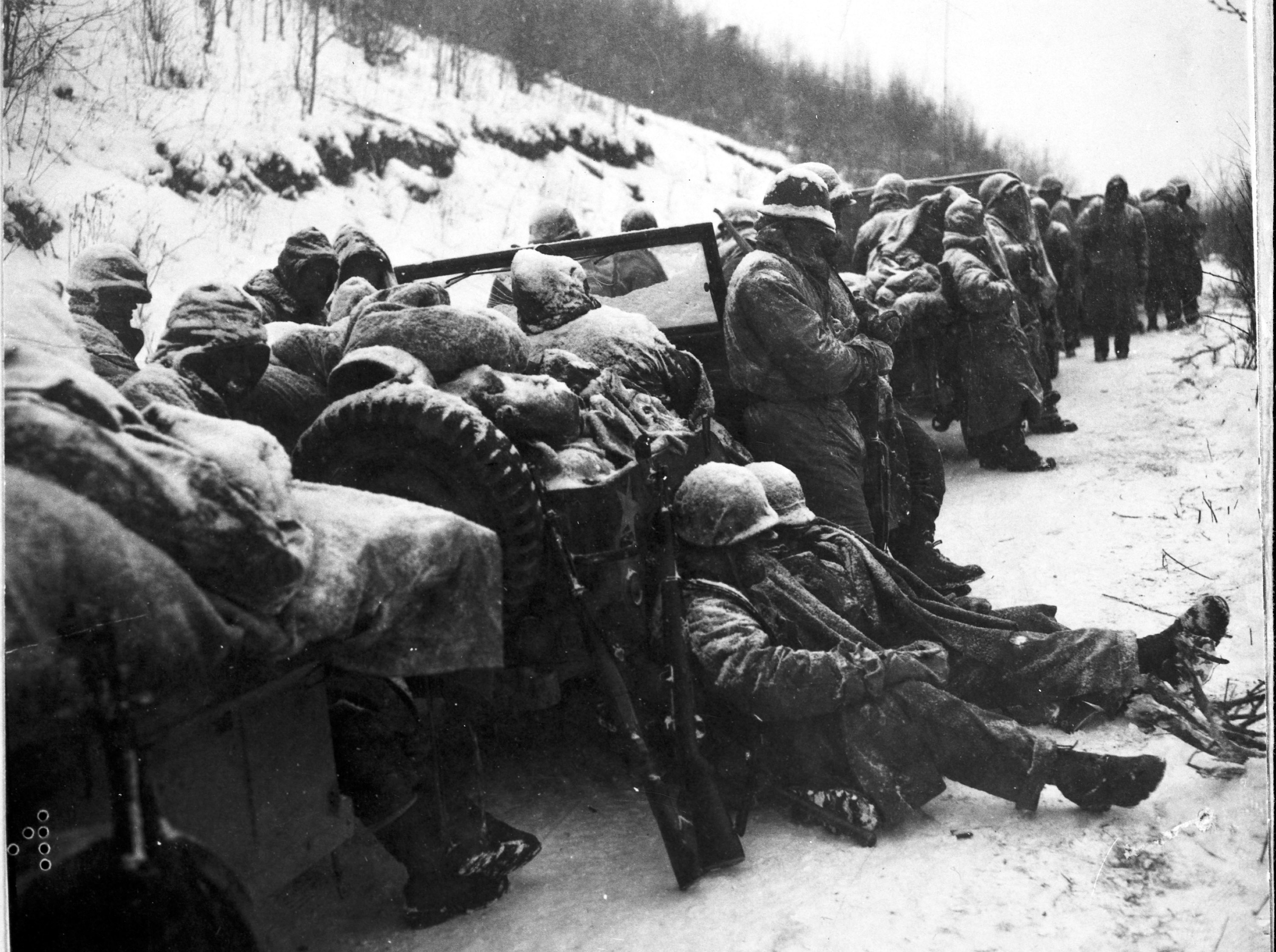 Marines fought back fifteen miles through Chinese hordes, where they organized for the epic 40-mile fight down mountain trails to the sea.